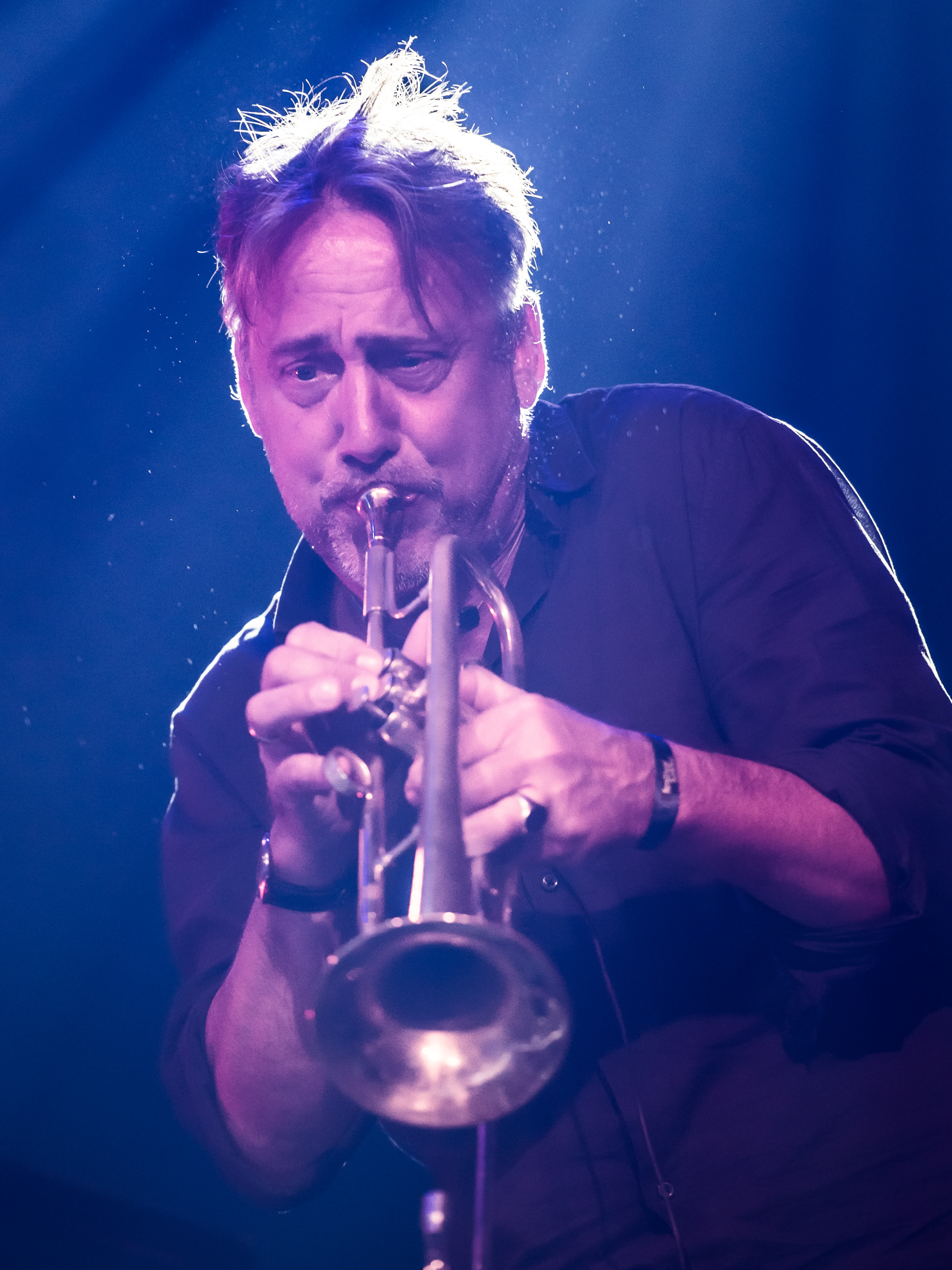 German jazz musician Markus Türk at the Moers Festival 2017